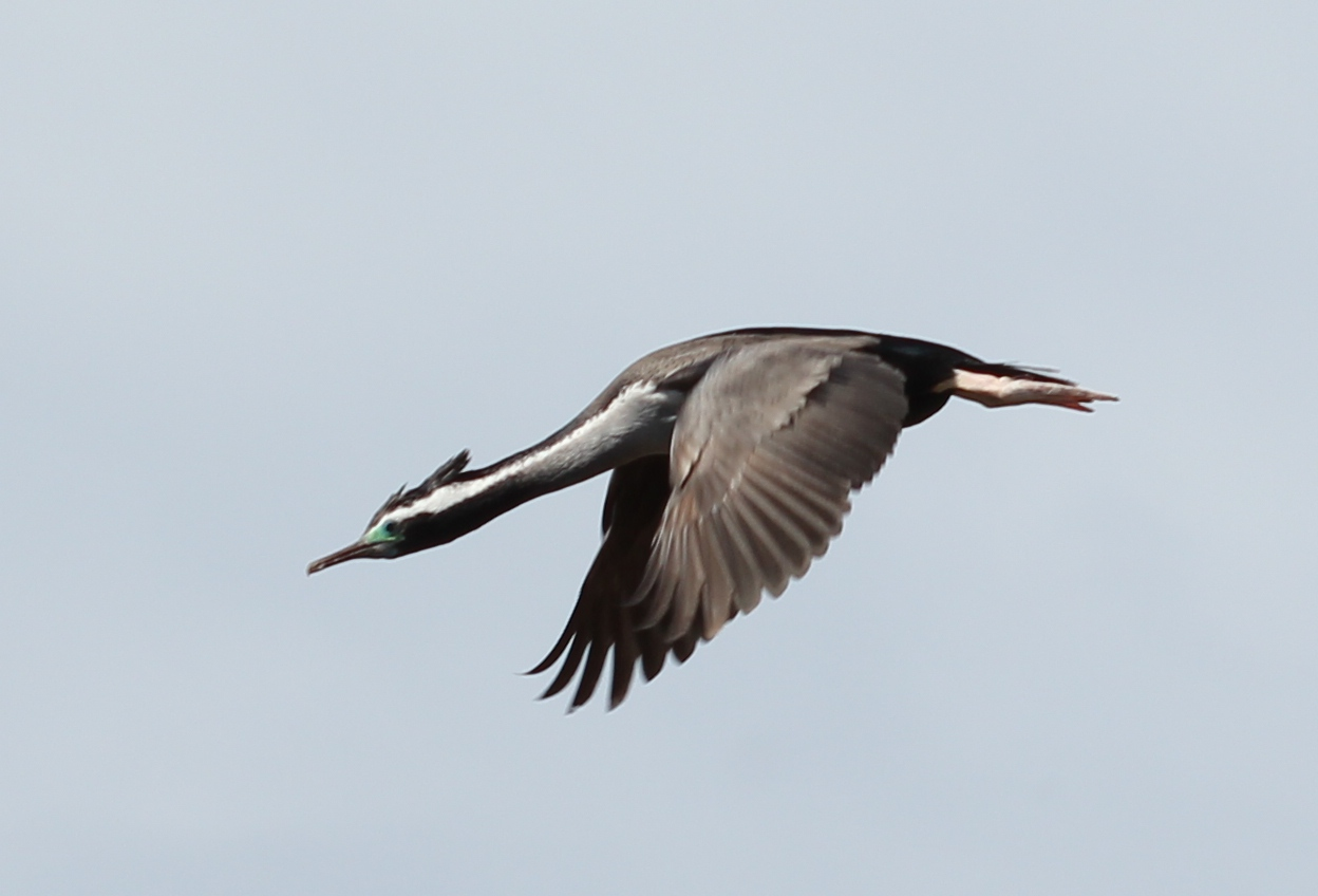 Spotted Shag (Phalacrocorax punctatus) in flight, near Oamaru, New Zealand.